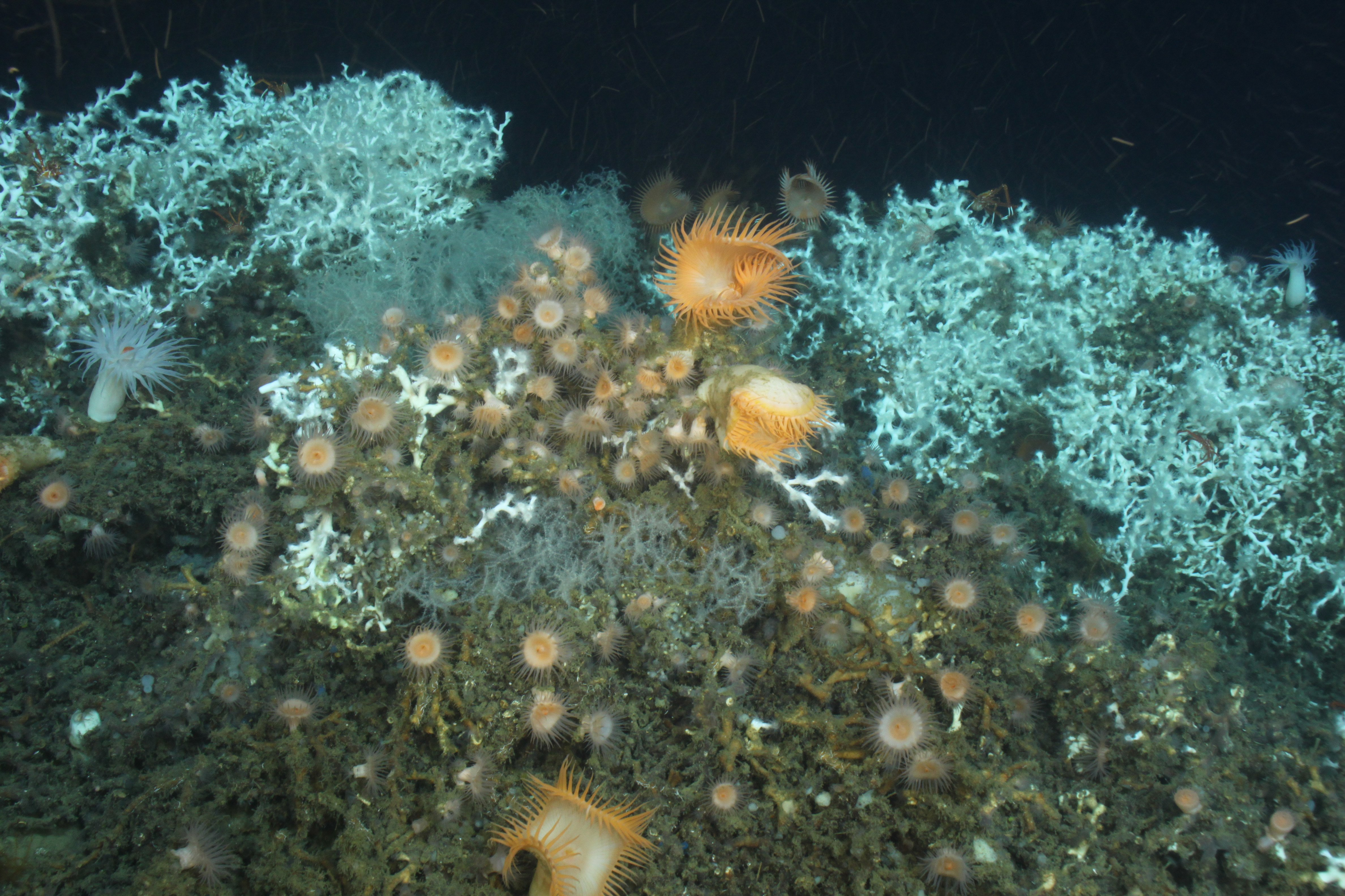 Lophelia pertusa, Leiopathes glabberima, and an assortment of anemones on Roberts Reef. Gulf of Mexico. Credit: Lophelia II 2010 Expedition, NOAA-OER/BOEMRE.